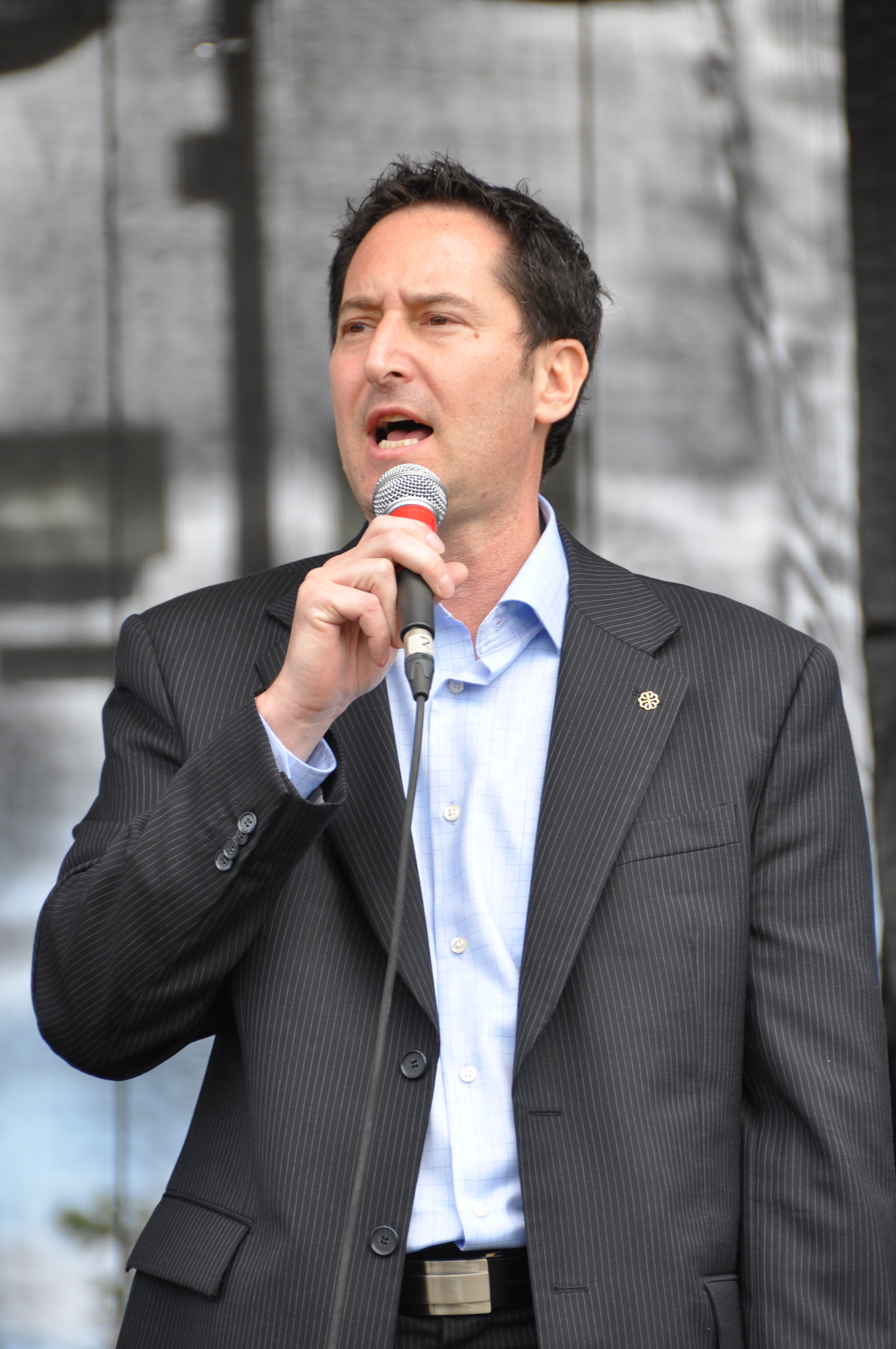 Michael Applebaum, mayor of Côte-des-Neiges–Notre-Dame-de-Grâce district, at Kent park in Côte-des-Neiges, Montreal, for the community festival "Côte-des-Neiges en fête", 13 September 2009.